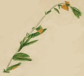 Stainton’s Natural History of the Tineina (1855–1873): Euspilapteryx auroguttella - a sprig of Hypericum with leaves mined and rolled into cones